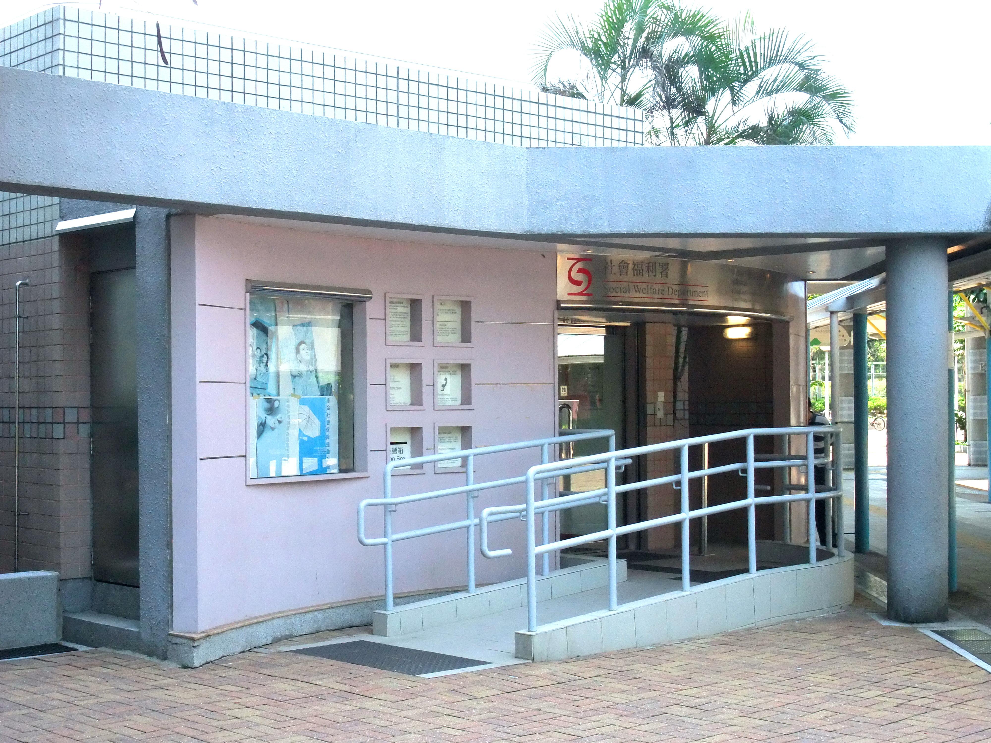 Social Welfare Department, Tung Chung Social Security Field Unit, Tung Chung, Hong Kong.